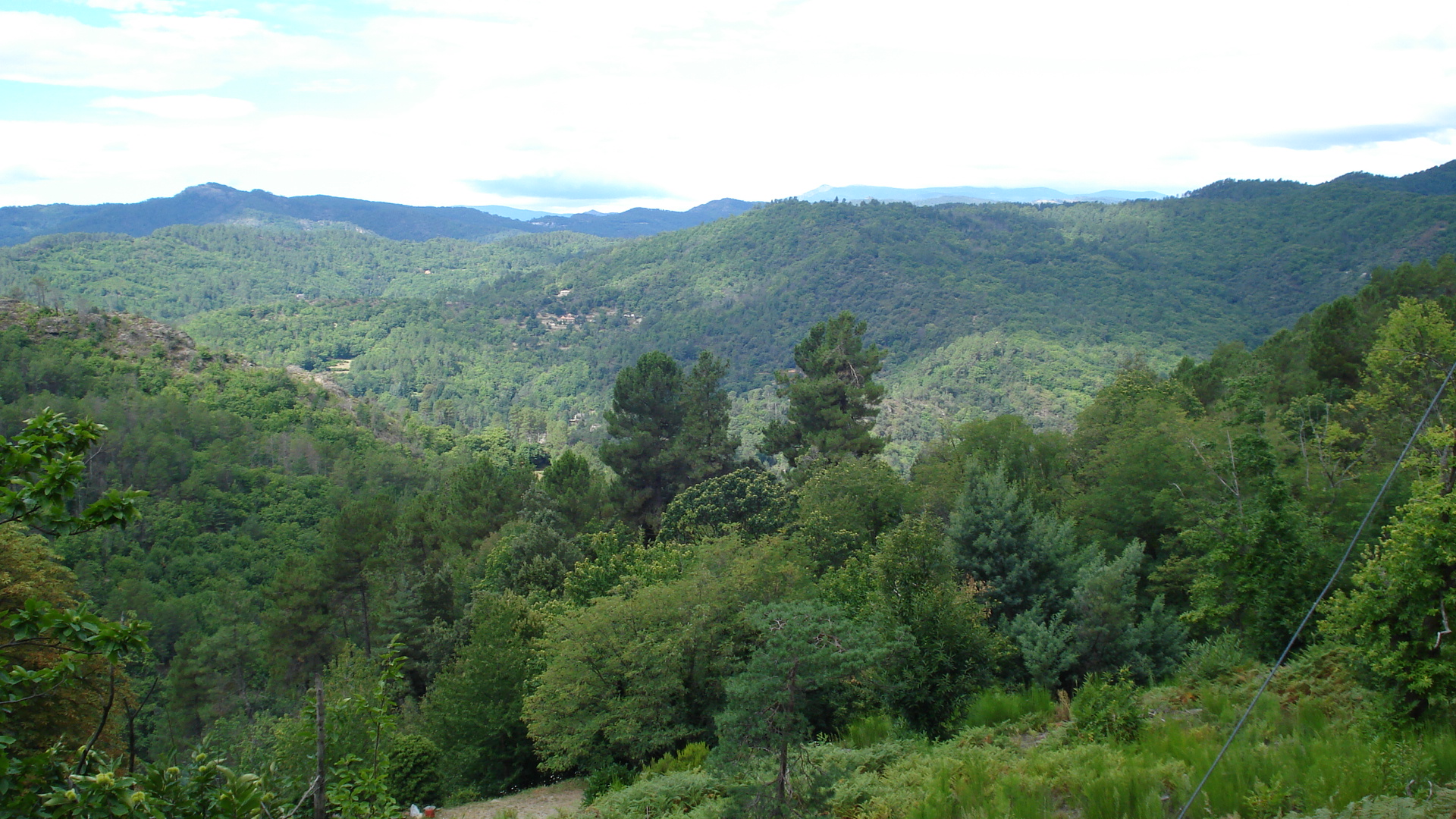 view from the avelacs toward the valley of Saint-Étienne-Vallée-Française (Lozère)